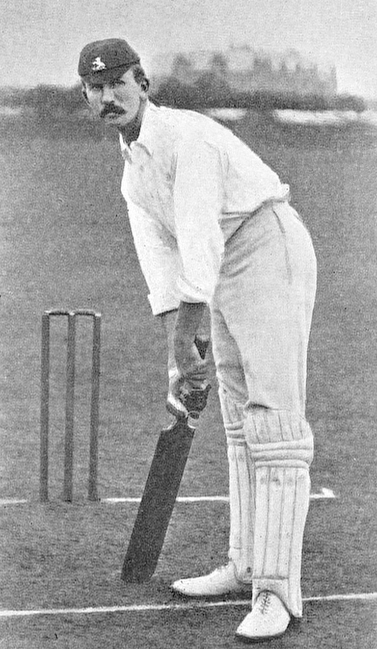 Scan of cricketer Haldane Stewart